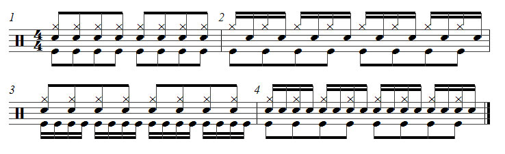 Drum kit score notation of blast beat pattern.